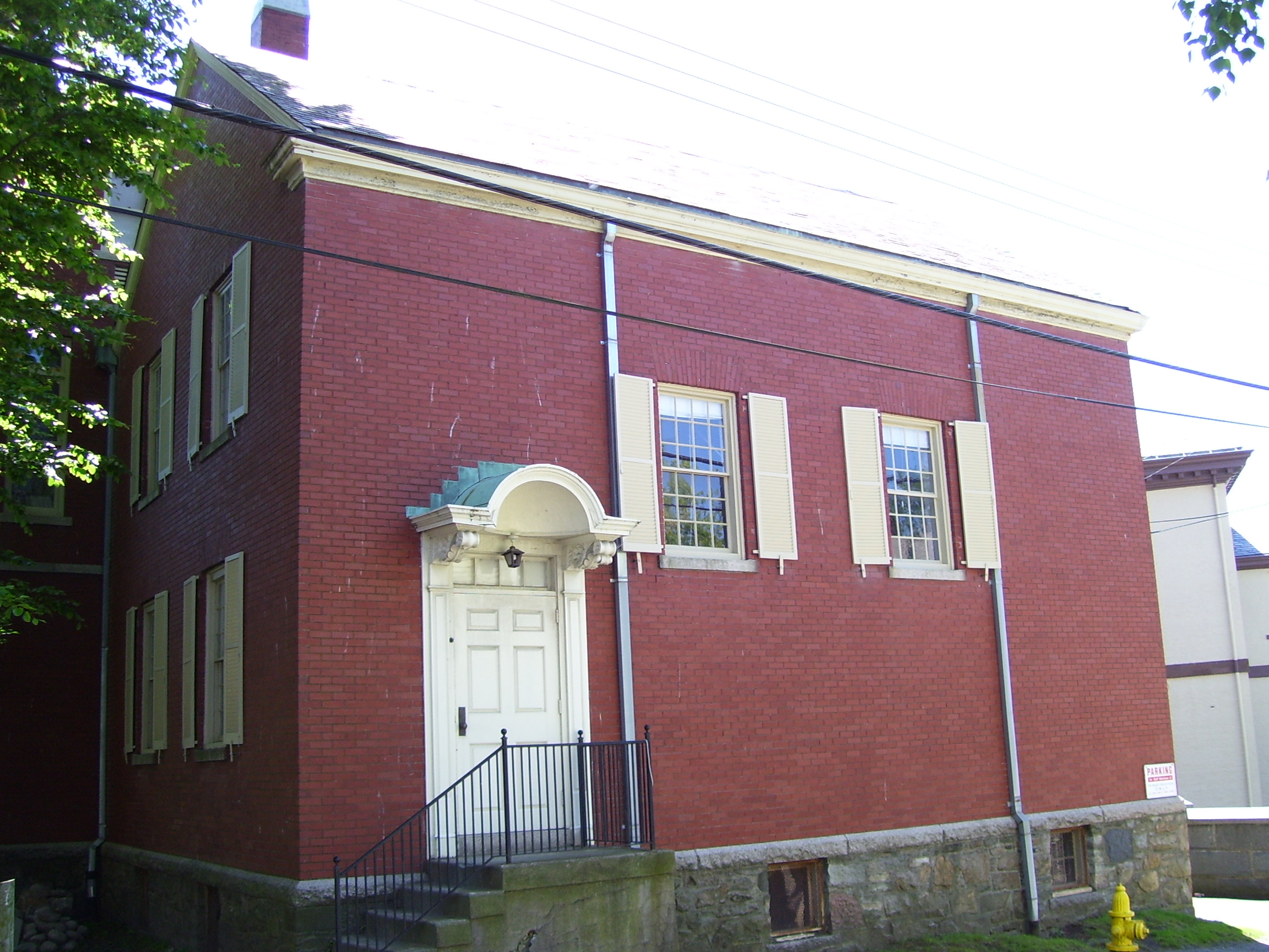 My 2008 photo of the Sabbatarian Meeting House in Newport RI part of the Newport Historical Society.